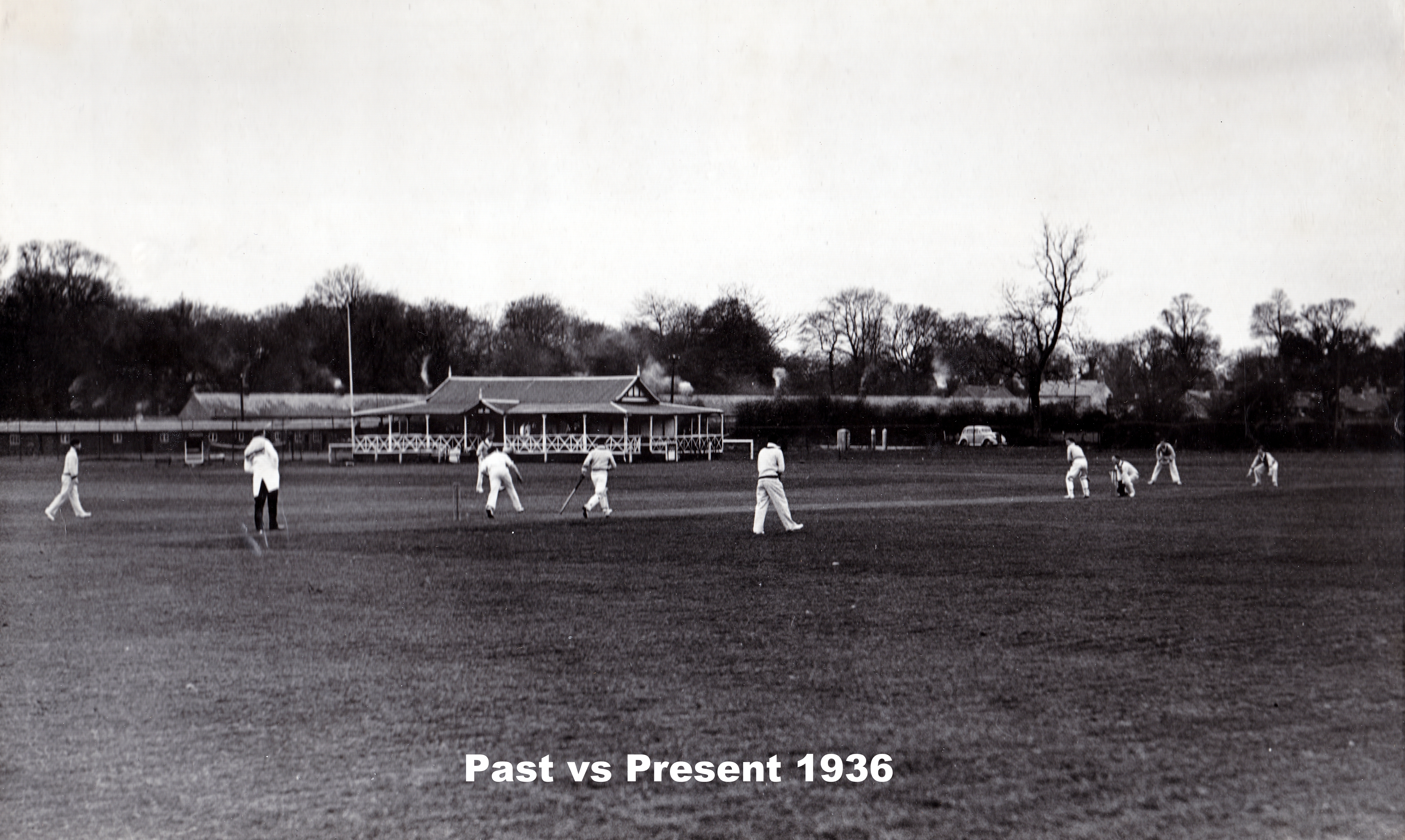 Cricket match between Belvedere Past and Present pupils in 1936